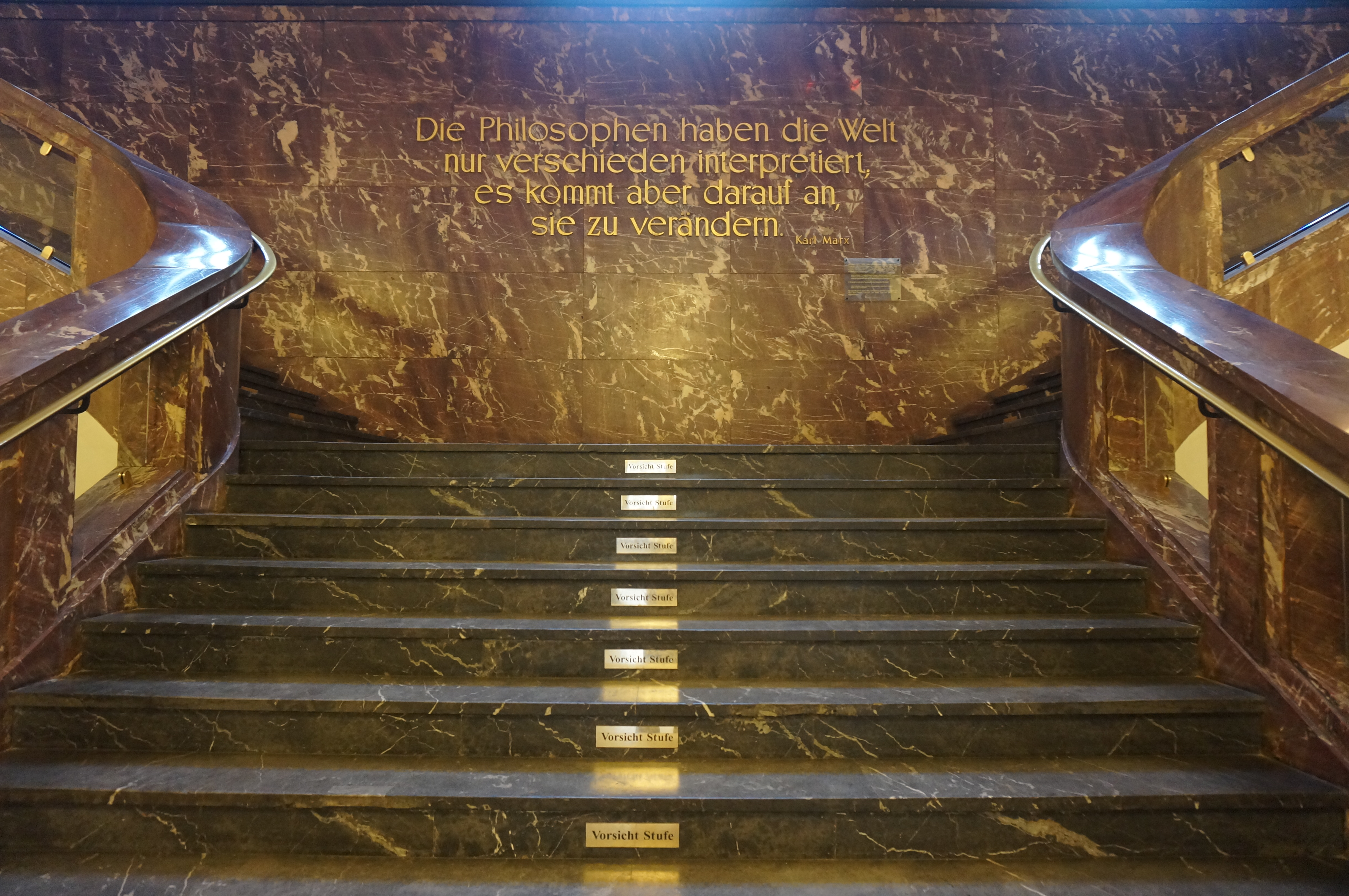 Sentence by Karl Marx in "Theses on Feuerbach" at the staircase in the main building of Humboldt University